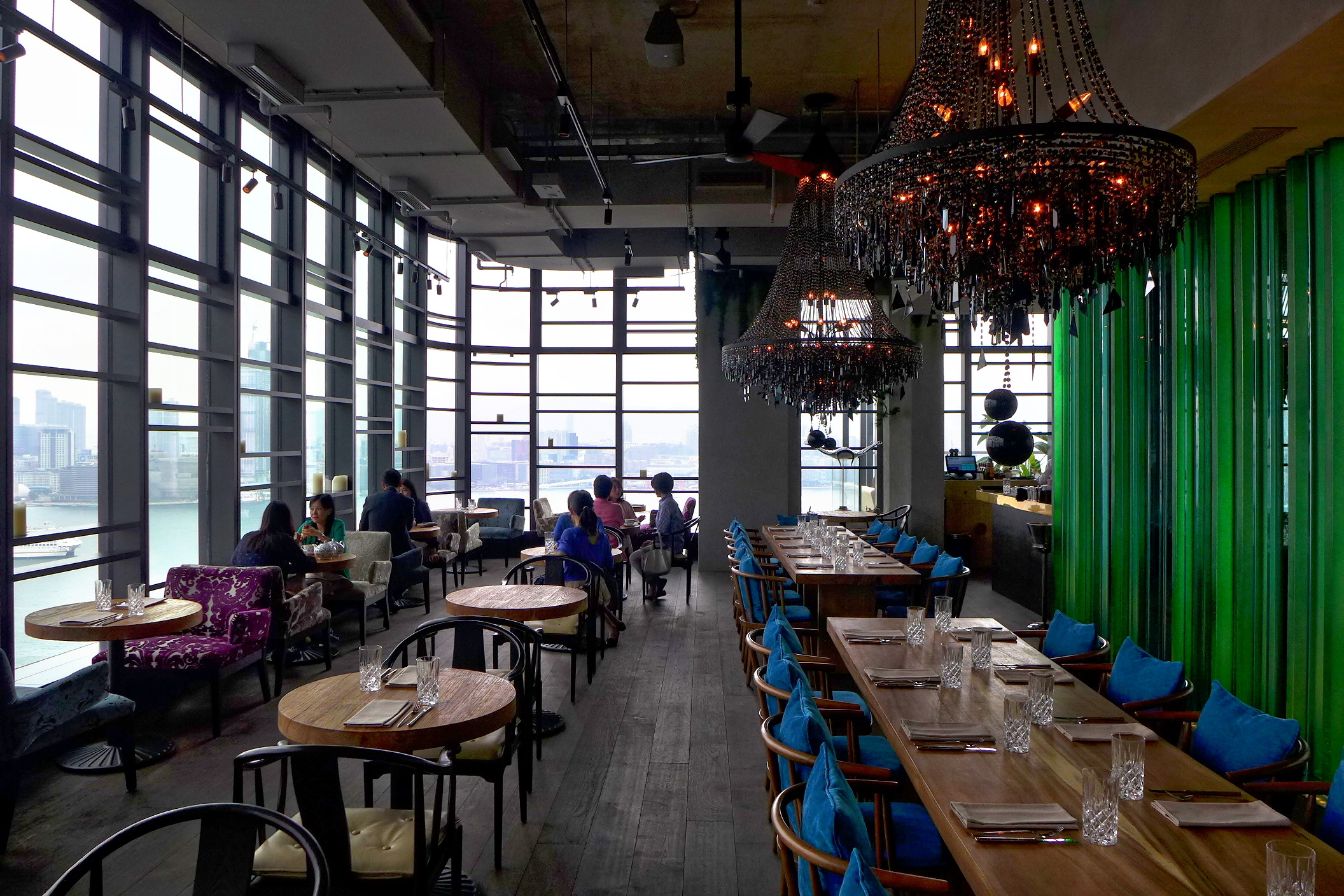 TOWER 535 Seafood Room